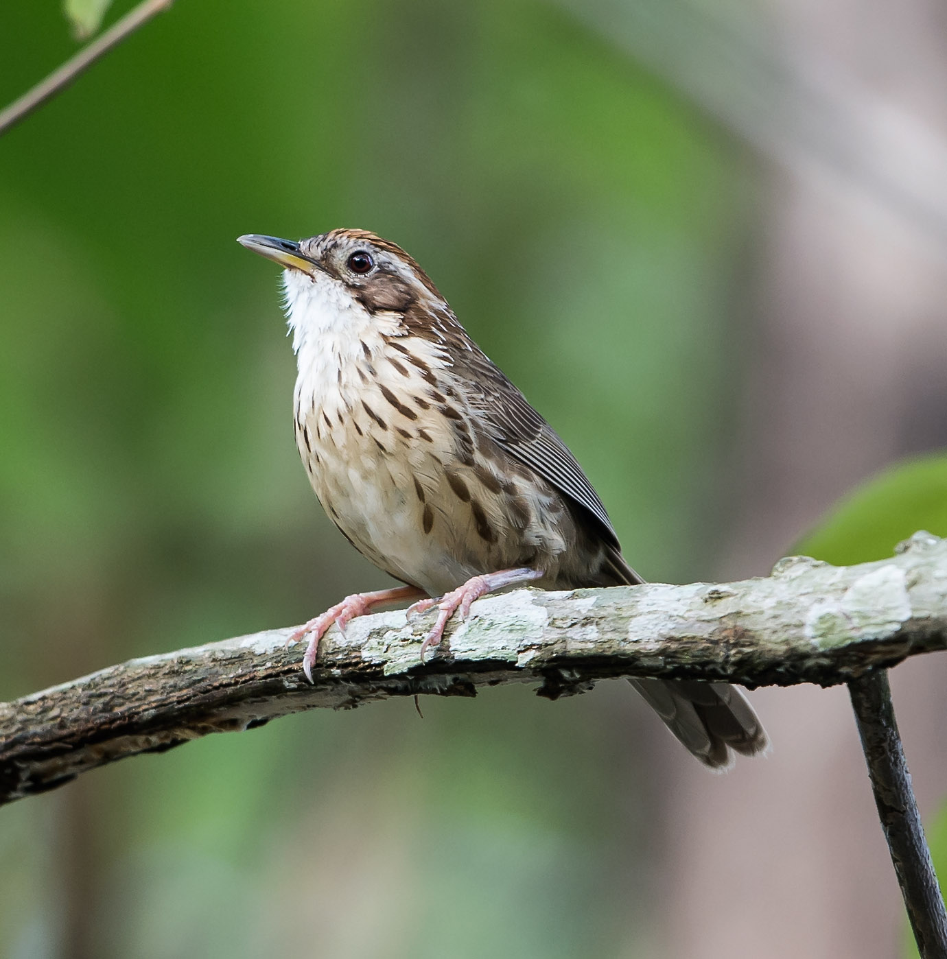 Pellorneumruficeps from Jhirna Range of Jim Corbett NP